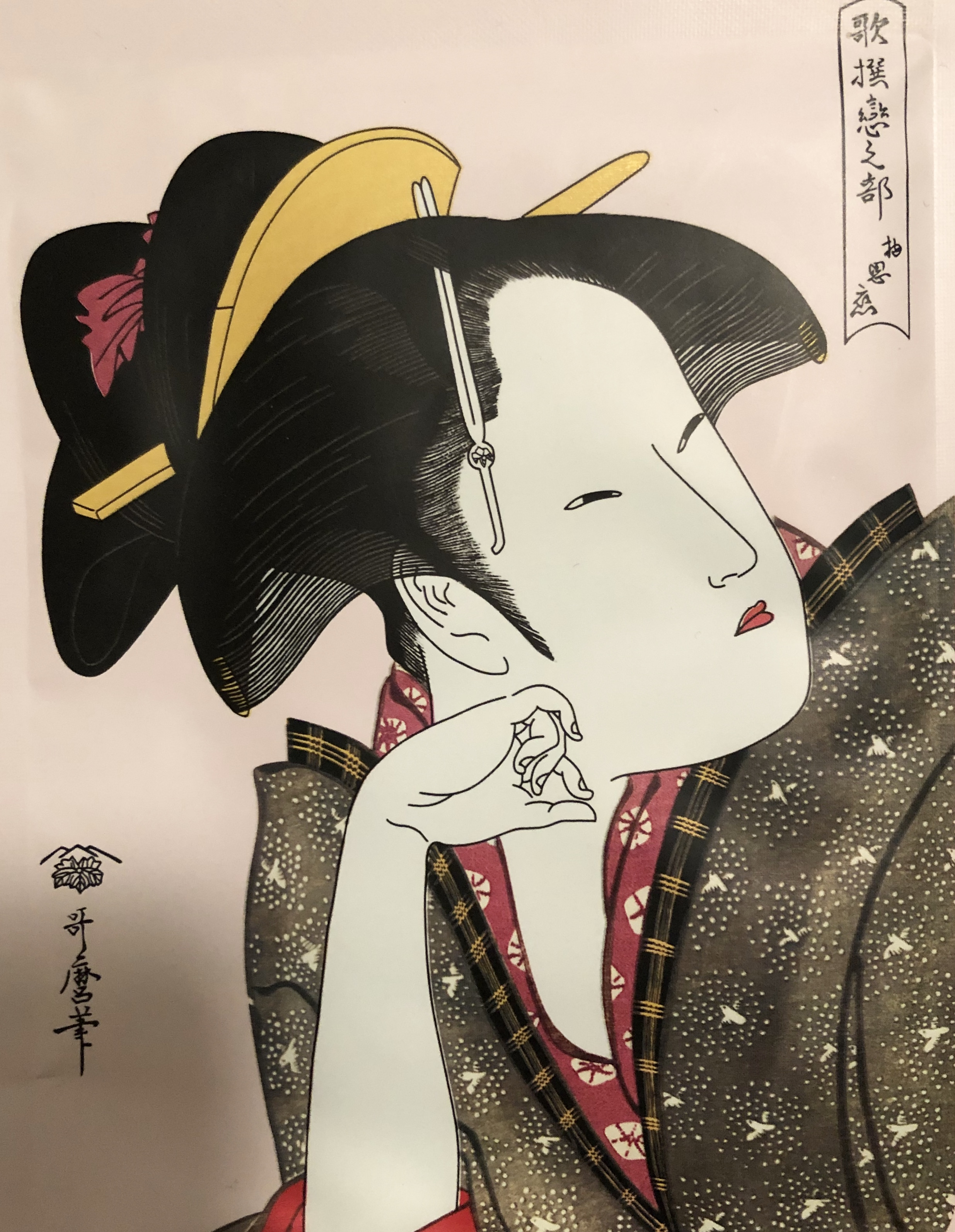 Ukiyo-e of a lady